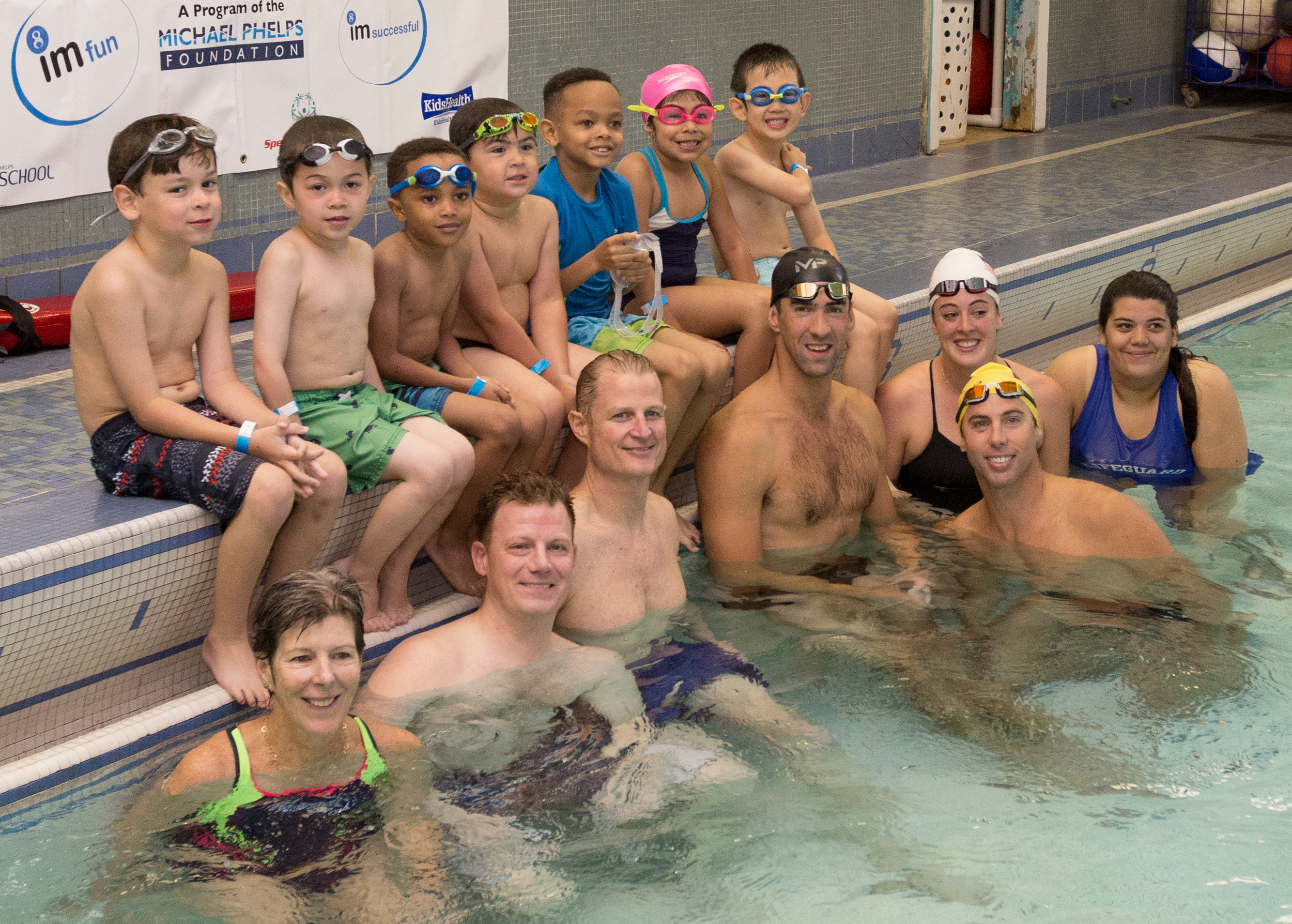 These kids are confident swimmers! Pool Safely Safer Summer Swimming Kickoff - May 20, 2017 at the Louis L. Valentine Boys & Girls Club in Chicago